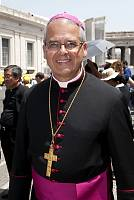 June 30,2012: Archbishop Mario Alberto Molina Palma, OAR, Los Altos, Quetzaltenango - Totonicapán (Guatemala), poses after the audience at the Vatican.